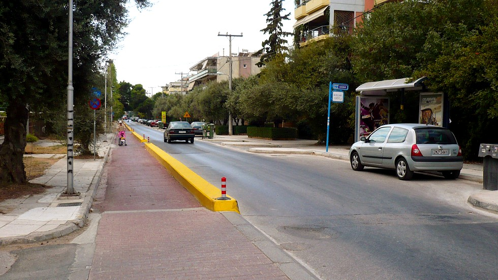 Route for cyclists at Halandri.